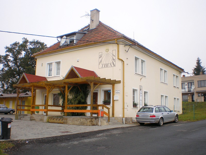 Tuřany, Cheb District, Czech Republic; municipal office and library